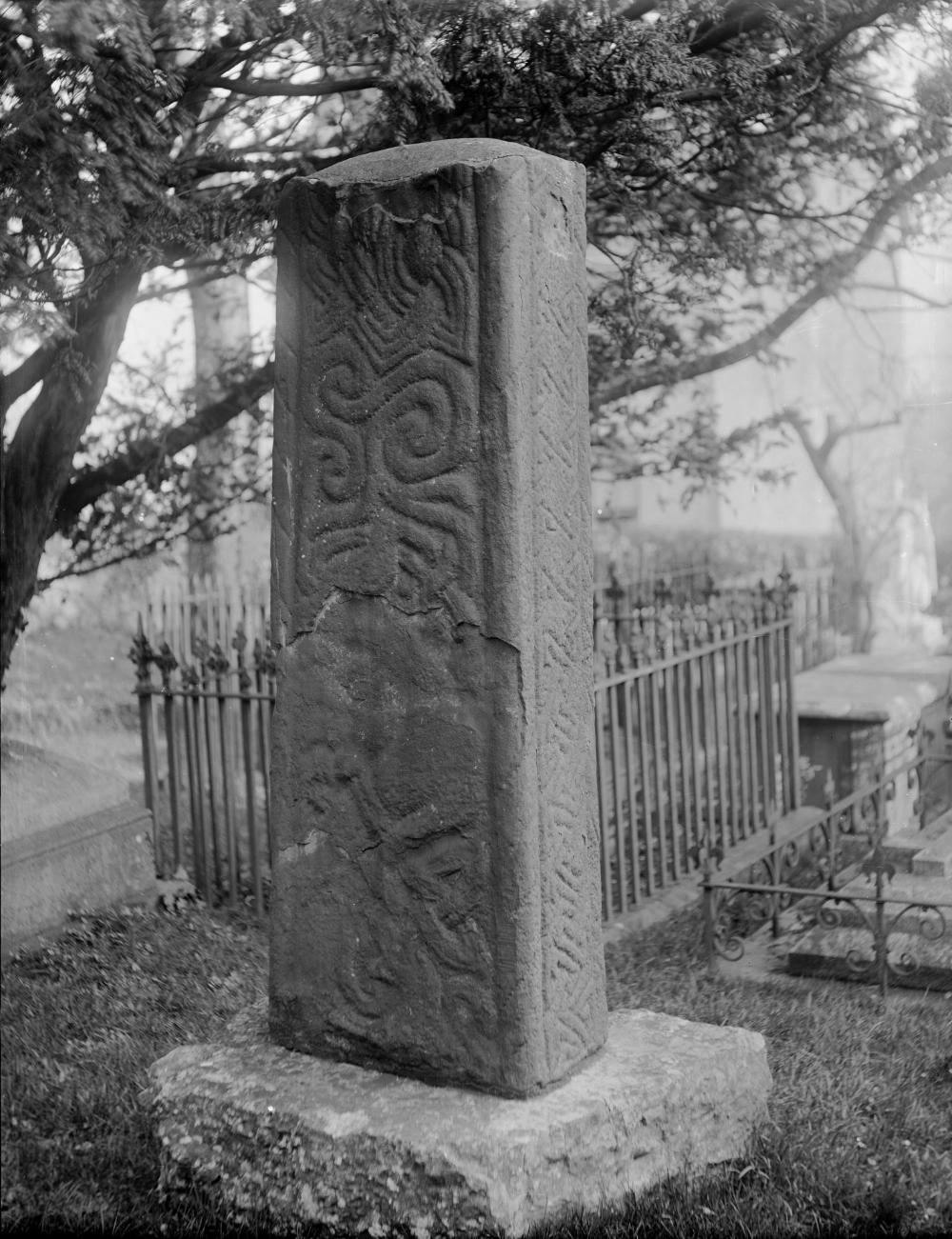 Abstract: Image of monument with missing cross at the top.